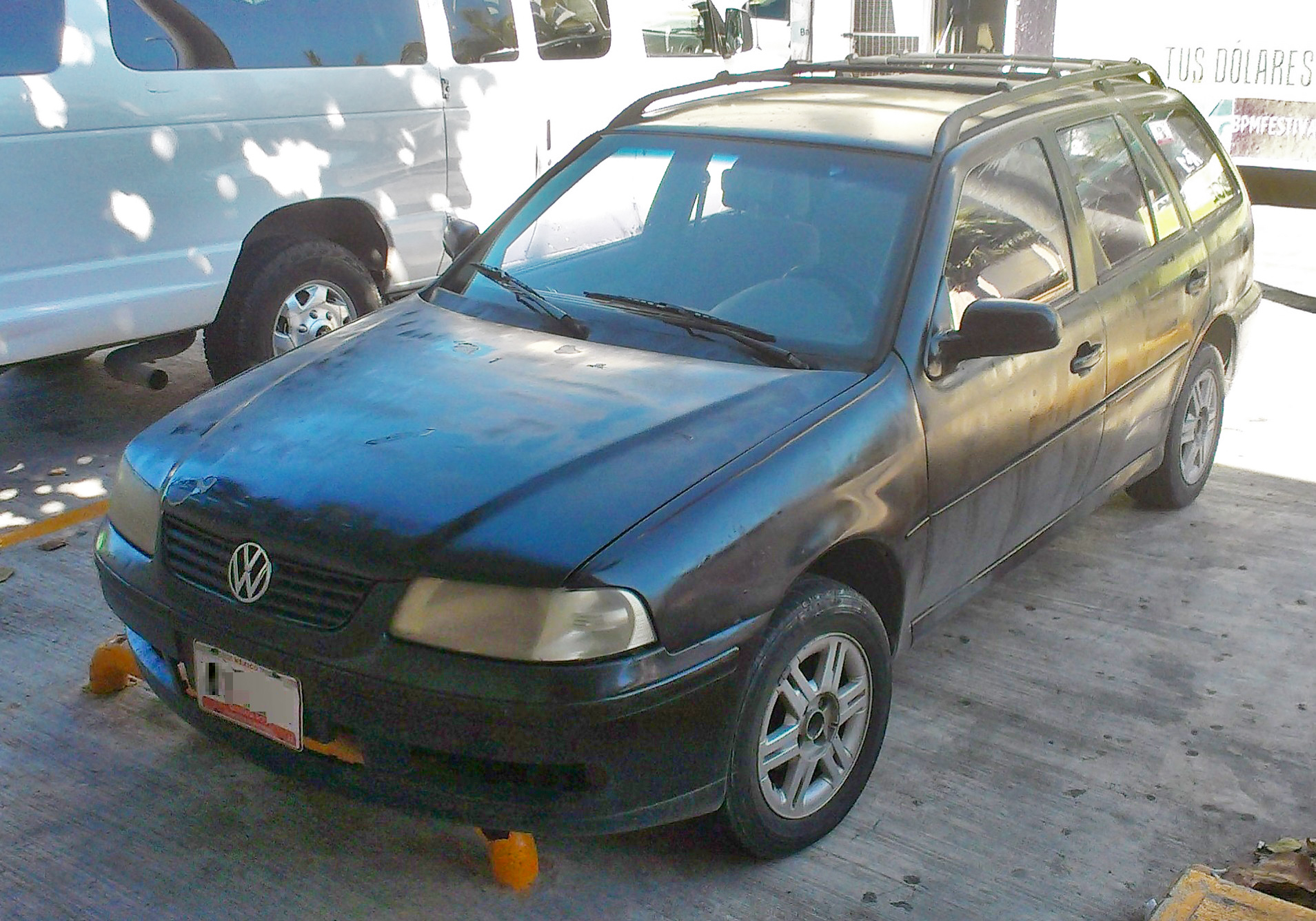 Volkswagen Pointer photographed in Cancun, Quintana Roo, Mexico.